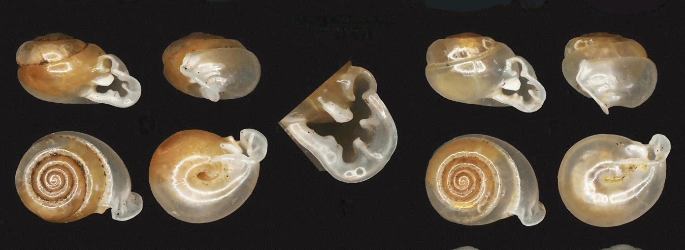 ZooKeys - Perrottetia aquilonaria Cut-out from original (Shells of Perrottetia species - ZooKeys-287-041-g003.jpeg) shown below